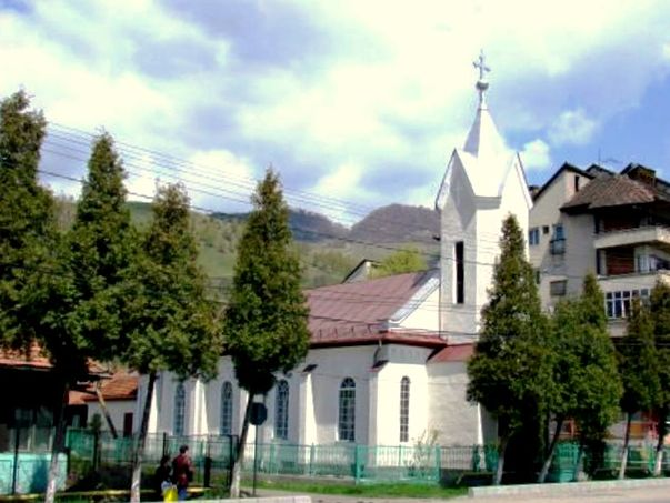 The Saint Barbara Church from outside, in Petrilla, Transylvania.